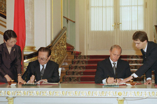 THE GRAND KREMLIN PALACE, MOSCOW. President Putin with Chinese President Jiang Zemin during the signing of joint documents.